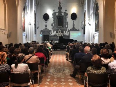 Gala Concert